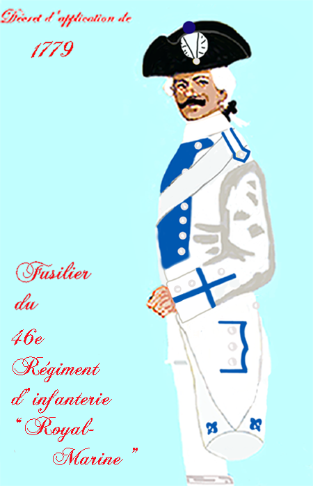 Uniform of a royal french infantry regiment from 1779 . Taken from: „LES UNIFORMES ET LES DRAPEAUX DE L'ARMÉE DU ROI“ Marseille 1899.